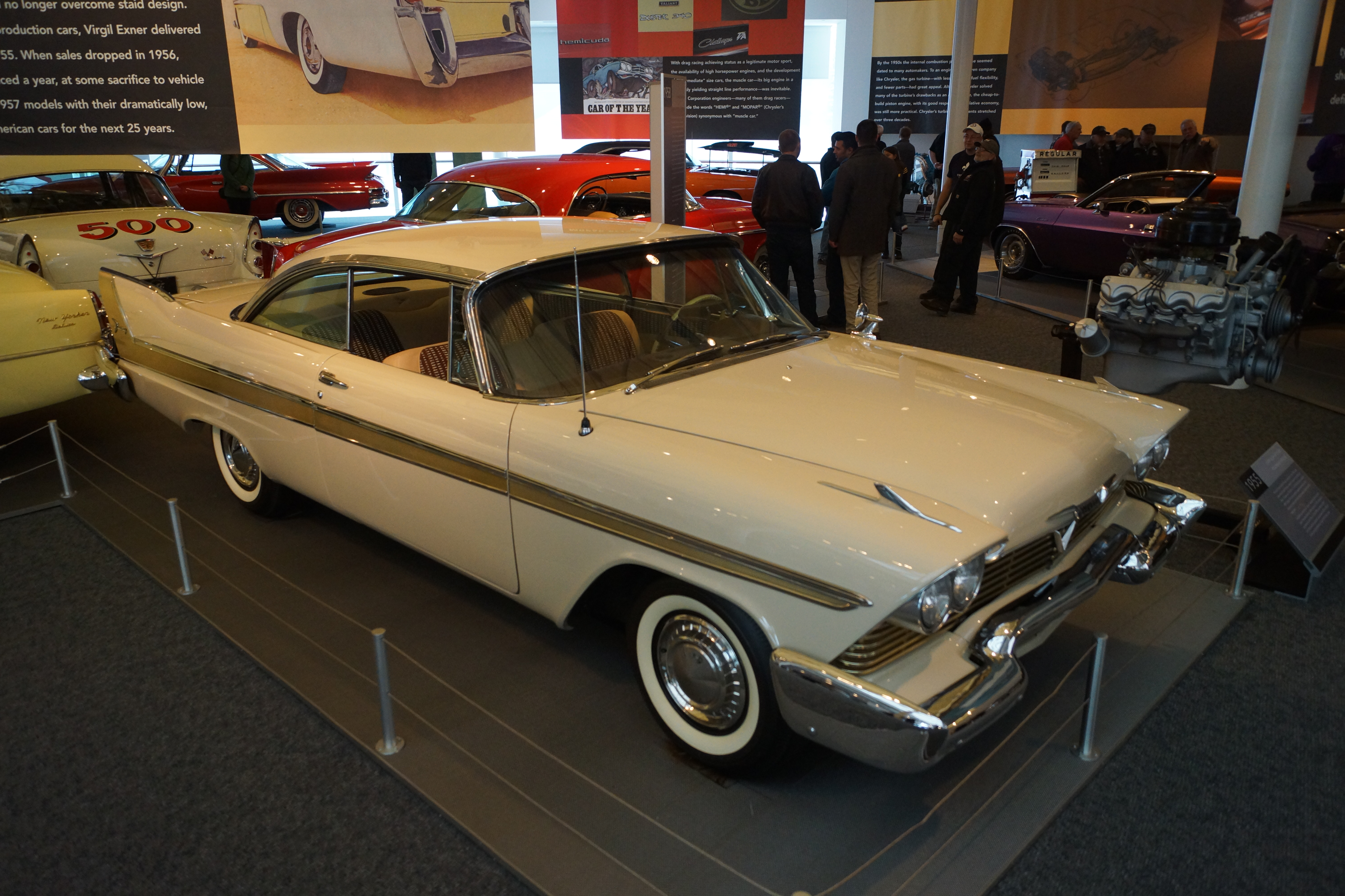 Click here for more car pictures at my Flickr site. Or here for my Car Crazy Tumblr site. Back on November 4th, Hemming's Blog posted an article about the closing of the Walter P. Chrysler Museum . I had missed a couple other opportunities with the WPC Club and others to get into the museum, after it had closed to the public. I did not want to regret missing this last chance to see all of the vehicles before being spread out to other facilities. I trekked from Western Minnesota to Eastern Michigan during Winter Storm Decima. I missed the worst parts of the storm, but still had to endure the aftermath winds, sub zero temperatures and a lake effect snow storm. The trip was difficult, but well worth it. I got to see several Chrysler Corporation concept and show cars that I had only seen pictures of before. There were several clever interactive displays demonstrating various innovations over the years. Since it was the last chance, I duplicated several shots using different camera settings to see what produced better results. I wish I had invested in a strobe light diffuser for all of those indoor pictures. I have not had much experience or success in the past with indoor car images.